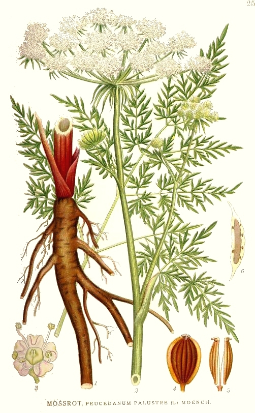 Original Description Mossrot, Peucedanum palustre (L.) Moench.